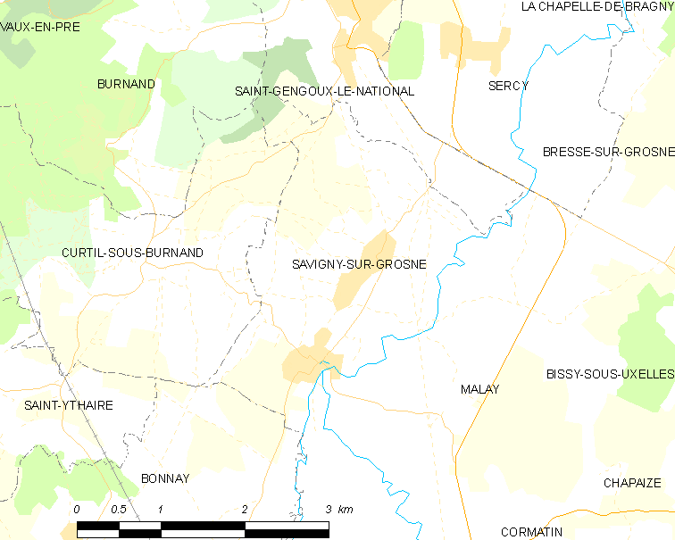 Map of French municipality